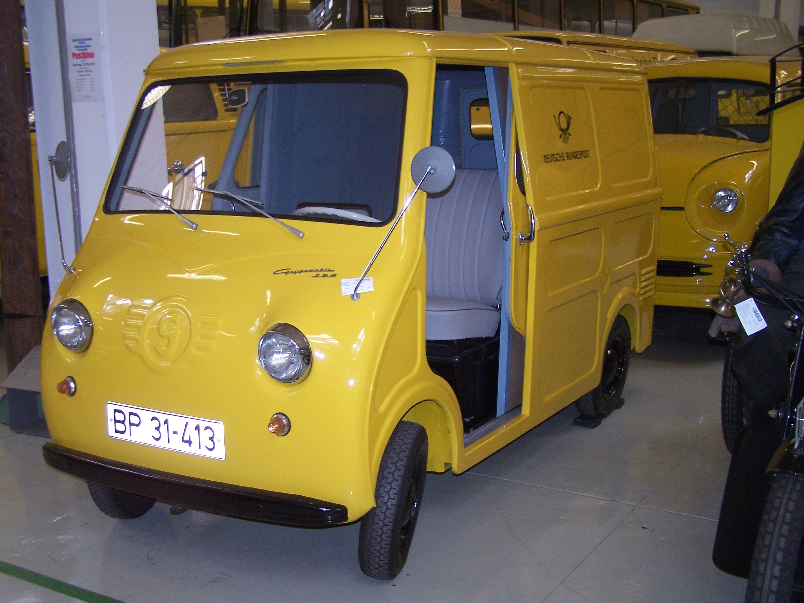 Goggomobil TL van of the Deutsche Bundespost, in the depot of the Museum for communication Frankfurt am Main in Heusenstamm